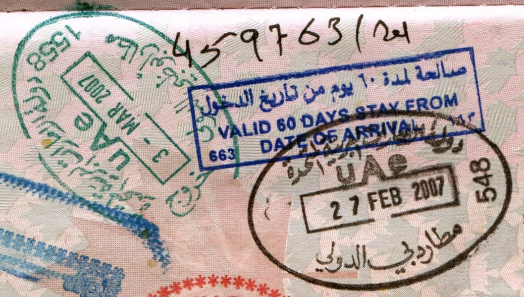 passport stamps from the UAE. Entry via Dubai, exit via Abu Dhabi